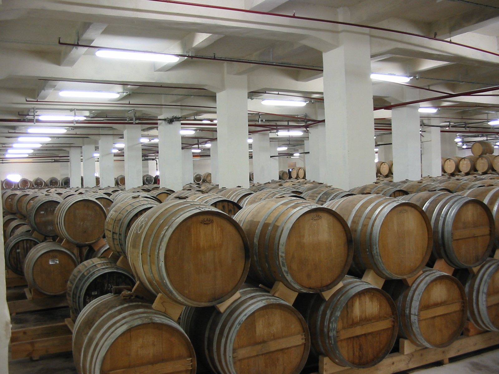 Yerevan Brandy Company - brendy shop.